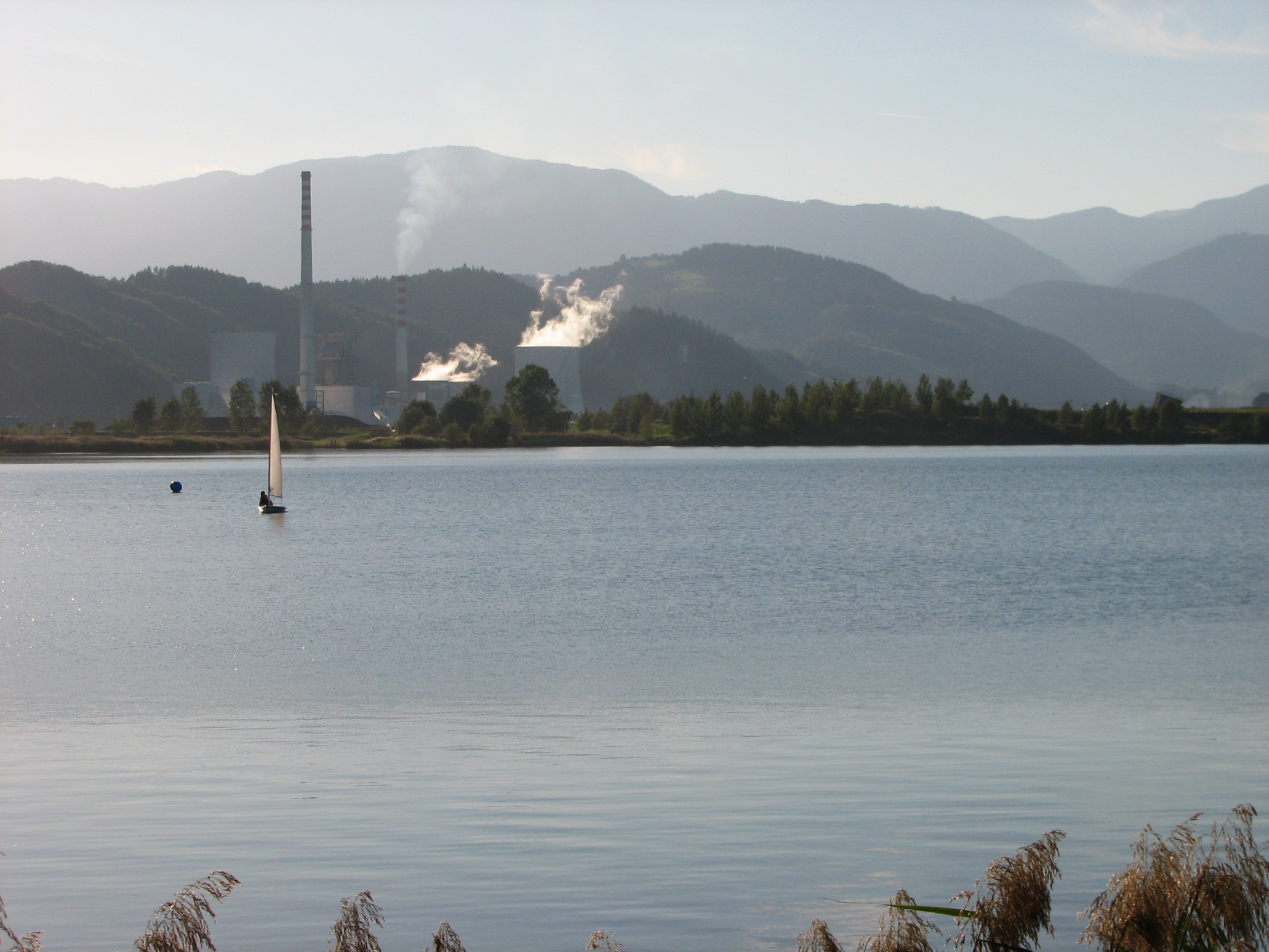 Thermal electric plant Šoštanj and Lake of Velenje